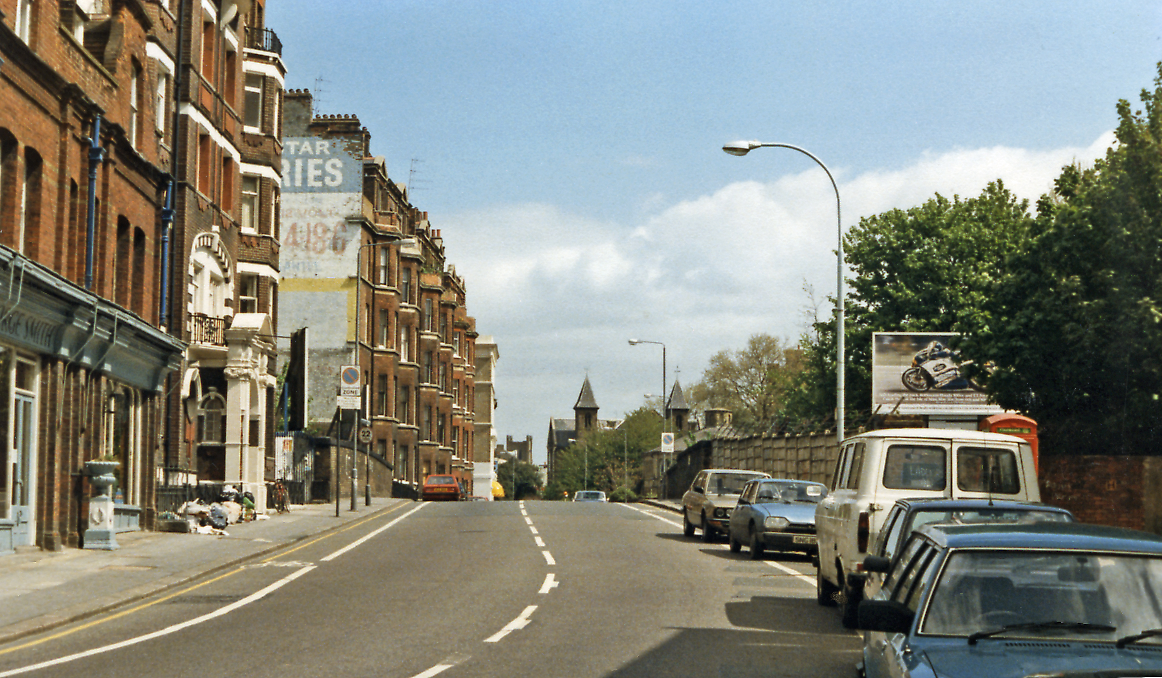 Fulham Road at site of Chelsea & Fulham station, 1986. View NE, towards Chelsea and South Kensington and near the entrance to Stamford Bridge Football Stadium. The West London Extension line (ex-GW, LNW, LB&SC & LSW), from Willesden Junction - Kensington (to the left) - (to the right) Battrsea - Clapham Junction etc. passes underneath just ahead. Chelsea & Fulham station was on the right, until closed 21/10/40.